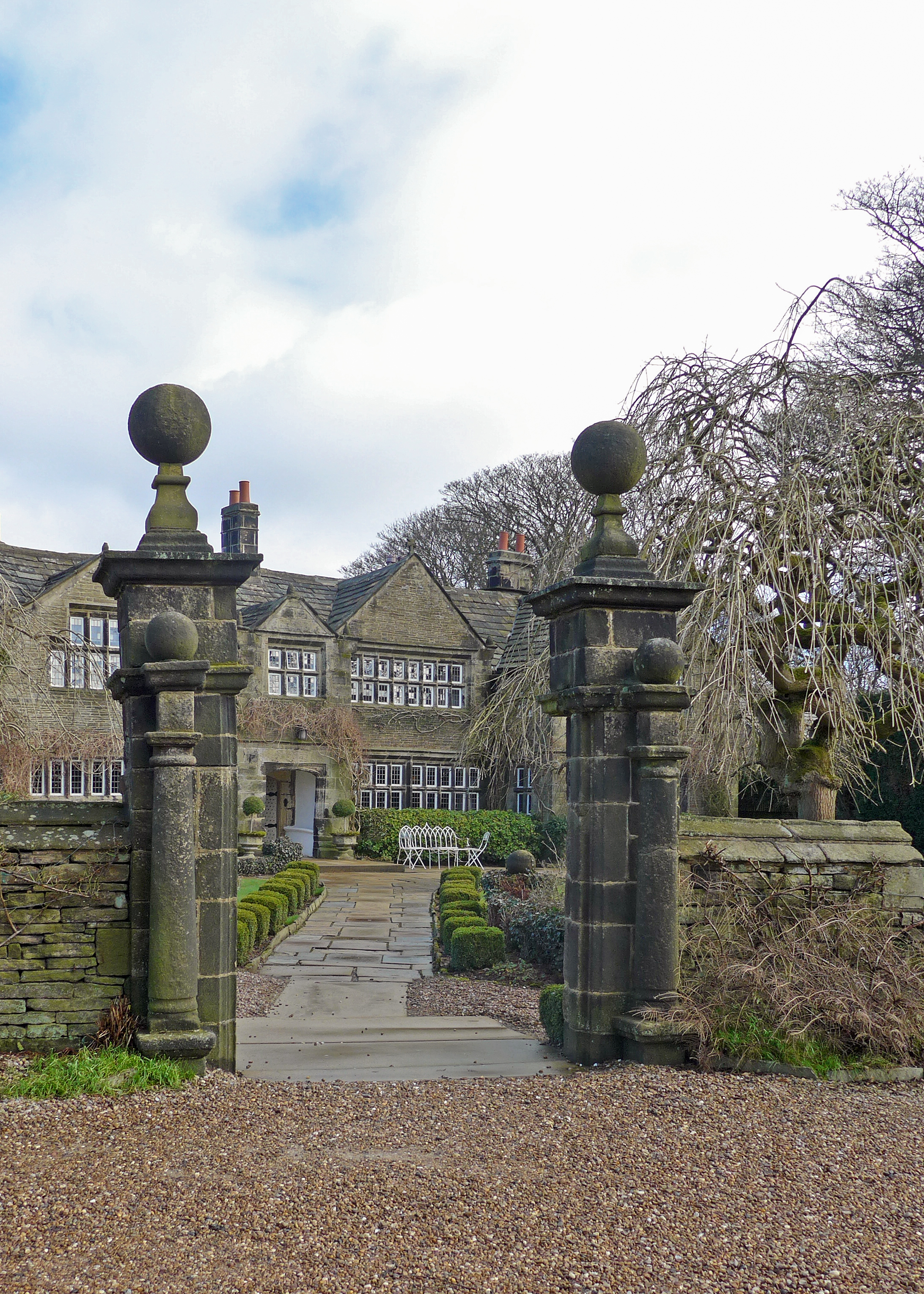 Gateposts, Holdsworth House, Halifax